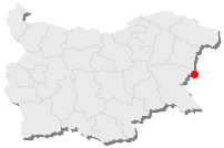 based on Image:Blank location in Bulgaria.png by Petko Yotov location of Kap emine in Bulgaria